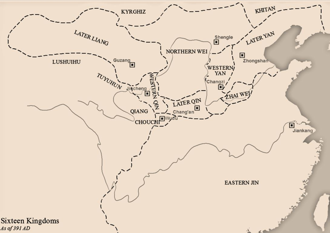 Map of Sixteen Kingdoms as of as of 391 AD